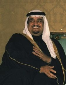 2nd version of Photograph of Crown Prince Fahd of Saudi Arabia and Jimmy Carter